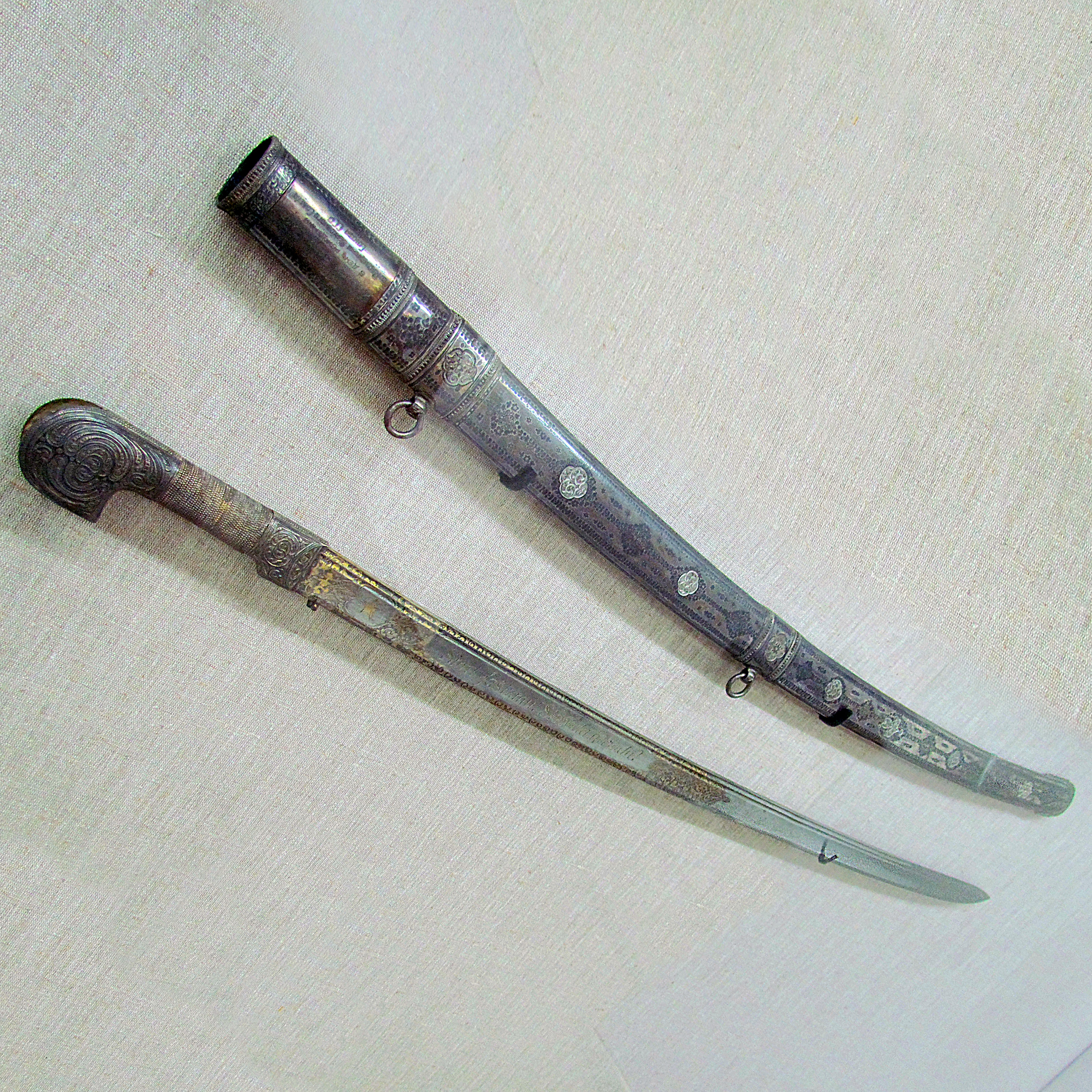 Caucasian shashka, Museum of Yugoslavia, Belgrade